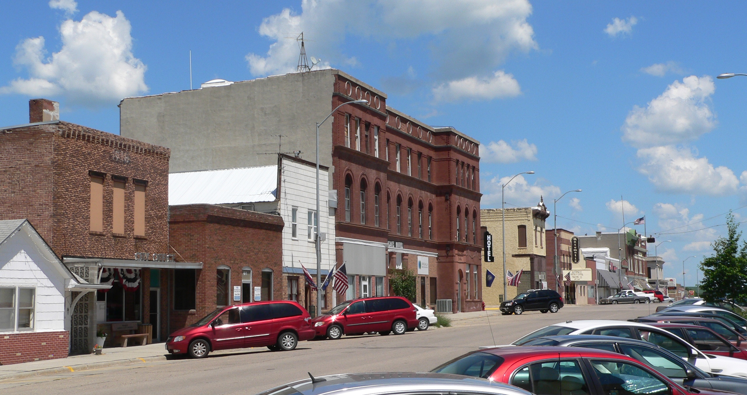 Downtown Pender, Nebraska: north side of Main Street, looking northeast from about 5th and Main. The three-story brick building in the center of the photo and the two-story white wood building to its left make up the Old Thurston County Courthouse, which is listed in the National Register of Historic Places.